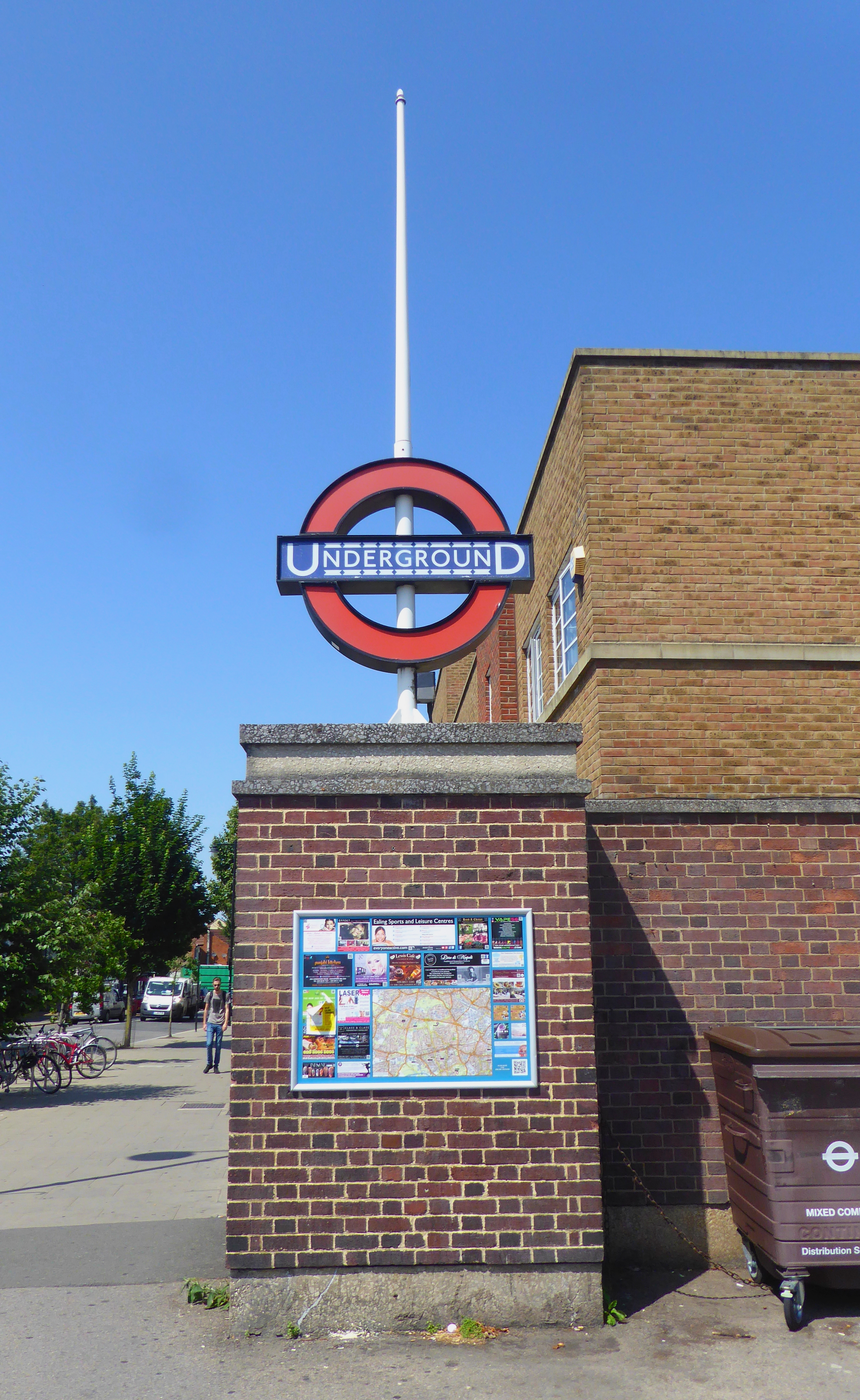 External Detail at Northfields Tube Station